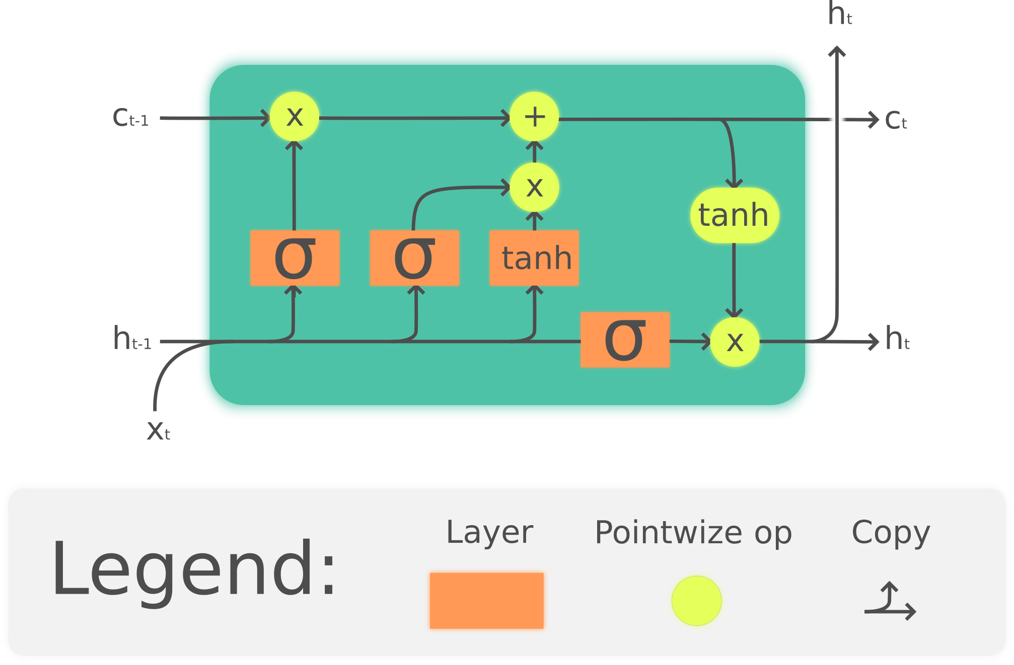 The Long Short-Term Memory (LSTM) cell can process data sequentially and keep its hidden state through time.